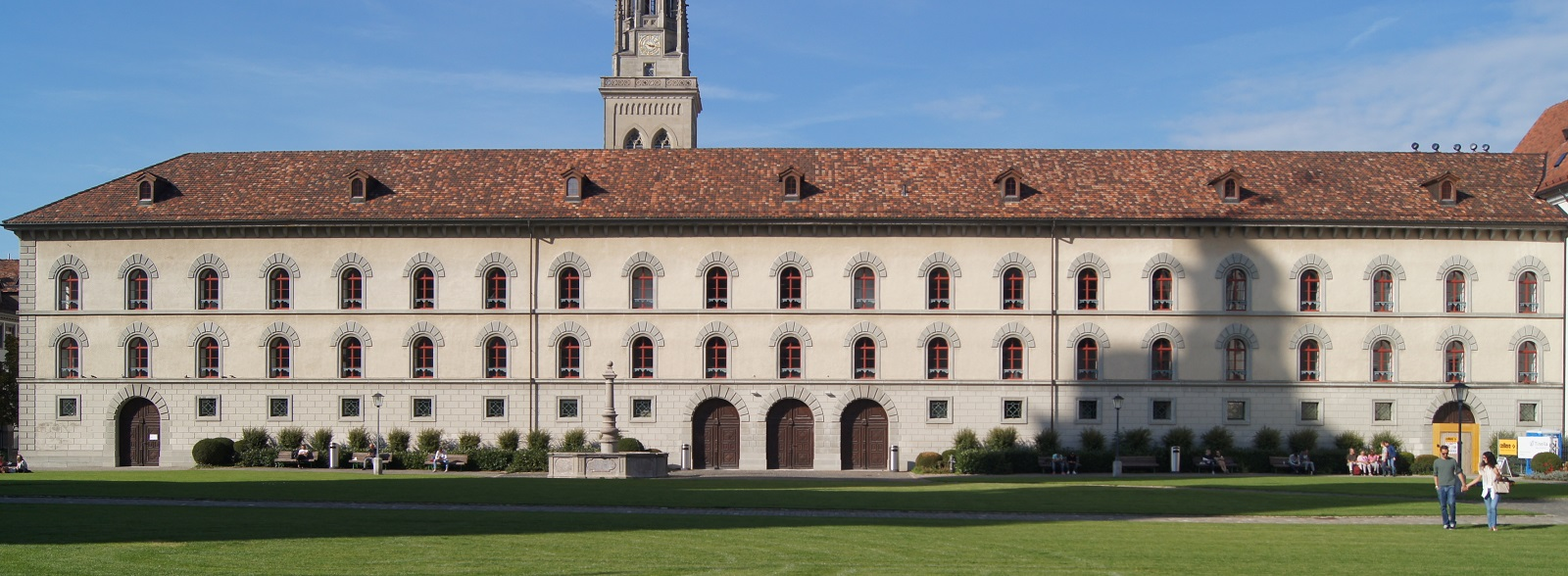 northern wing in St. Gall, state archives